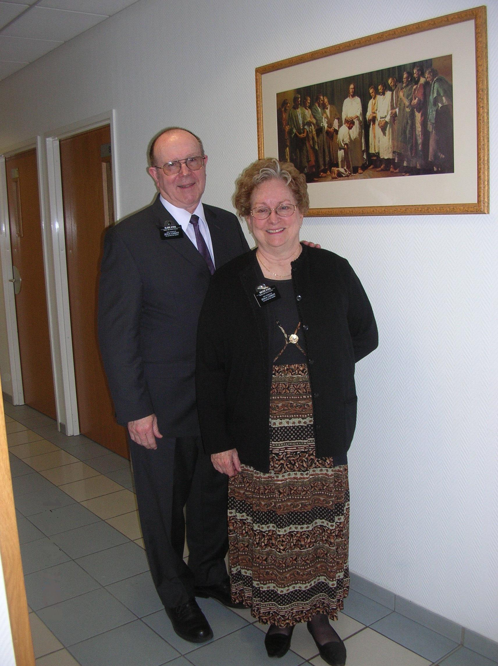 Senior missionaries, working as a couple in genealogy, for The Church of Jesus Christ of Latter-day Saints